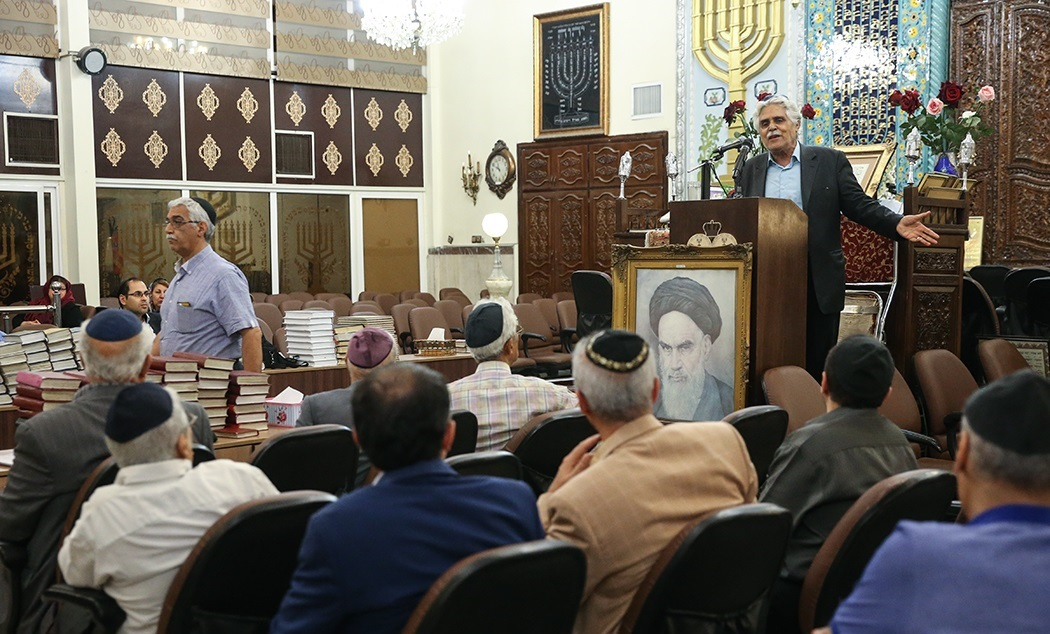 29th Ruhollah Khomeini's Death Anniversary, Yusef Abad Synagogue - 30 May 2018. main album